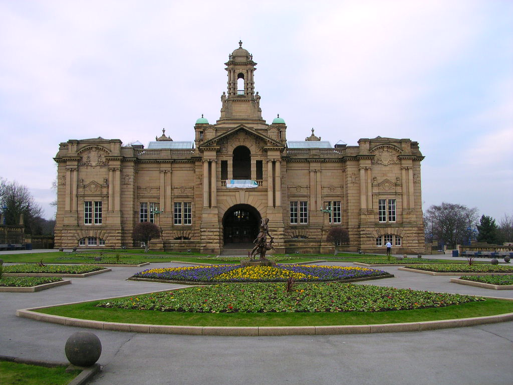 Cartwright Hall, Lister Park, Bradford, England.